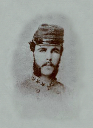 Brigadier general T. F. Toon, aged 23, CSA. Mounted on textured, white pasteboard. Name and rank written in ink across bottom of mount. North Carolina Museum of History; Accession Nbr: H.19XX.319.17